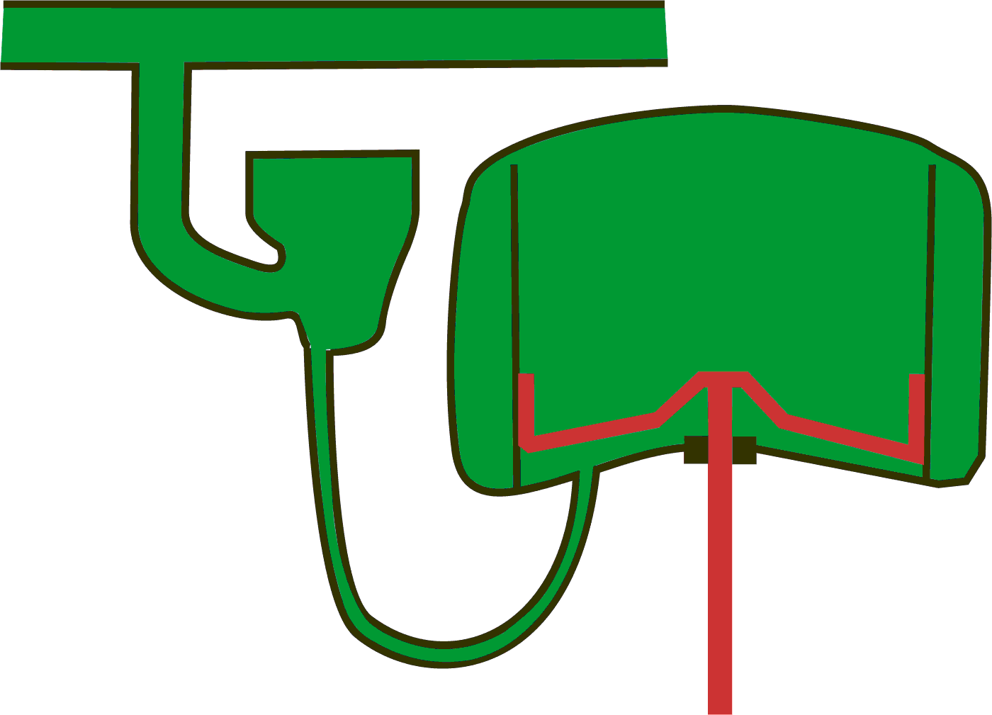 Schematic drawing of railway automatic vacuum brake cylinder in the release position